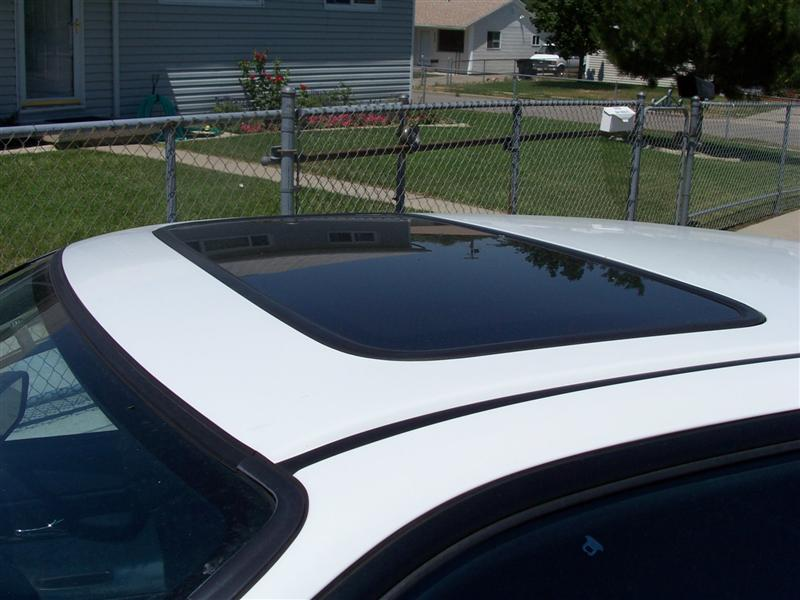 Sliding Moonroof on a 1992 Acura Integra LS